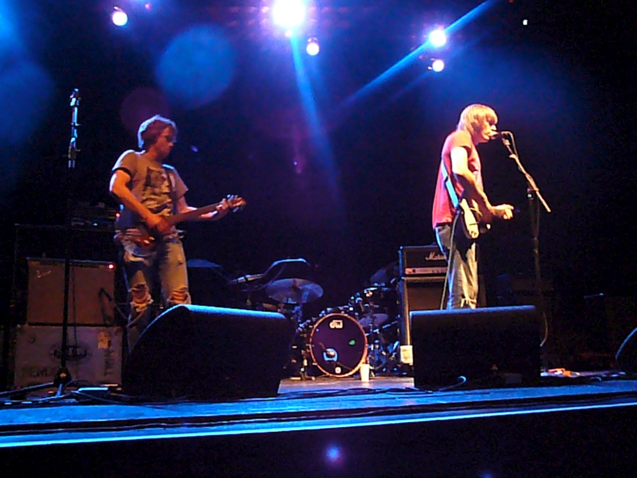 The Lemonheads in 2007